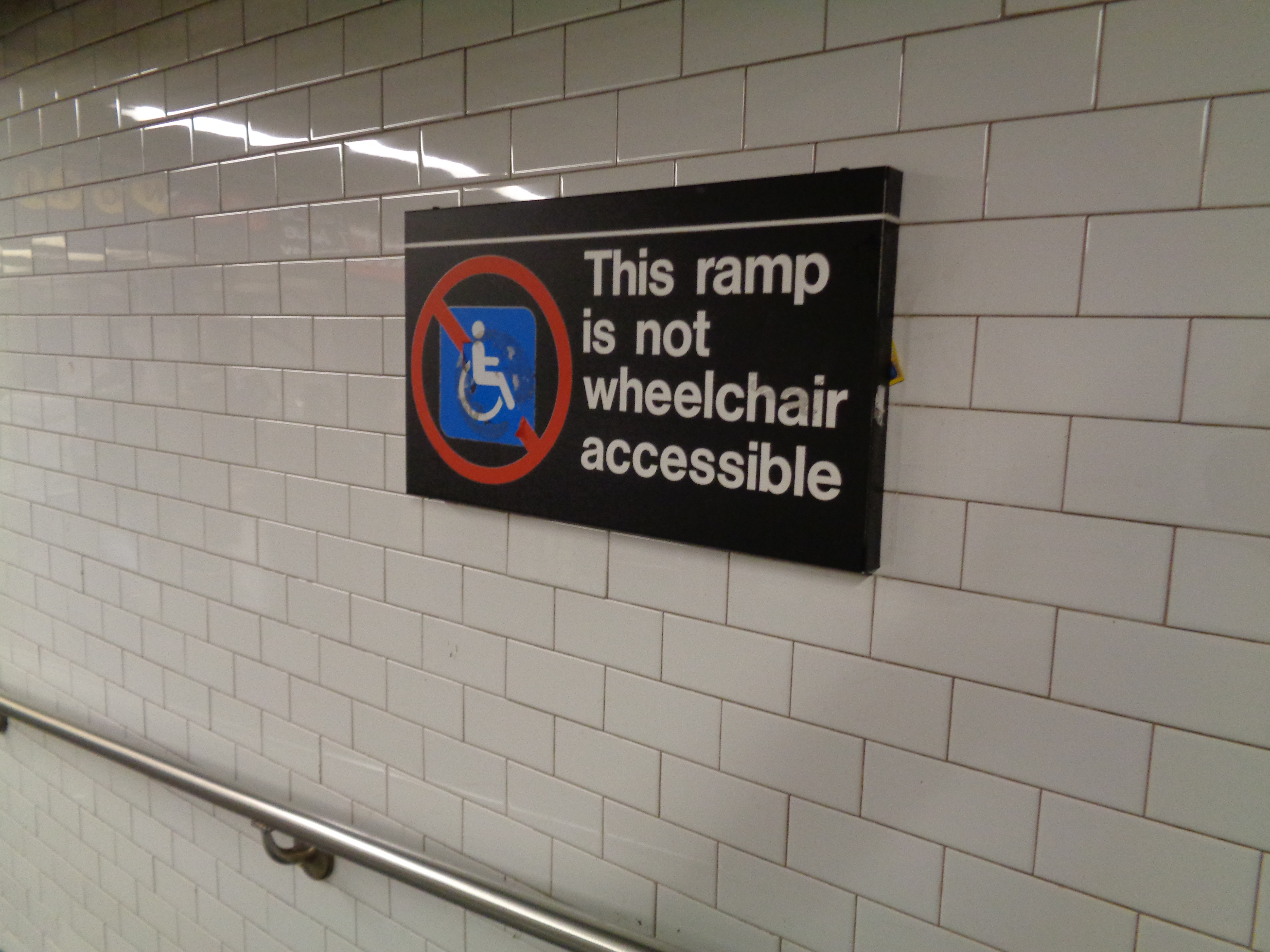 The western end of the passageway at the Times Square–42nd Street / Port Authority subway complex in Midtown Manhattan, leading between the IND station at 8th Avenue and the rest of the station at Times Square. Pictured is the sign informing passengers that the ramps and passageway are not ADA accessible.